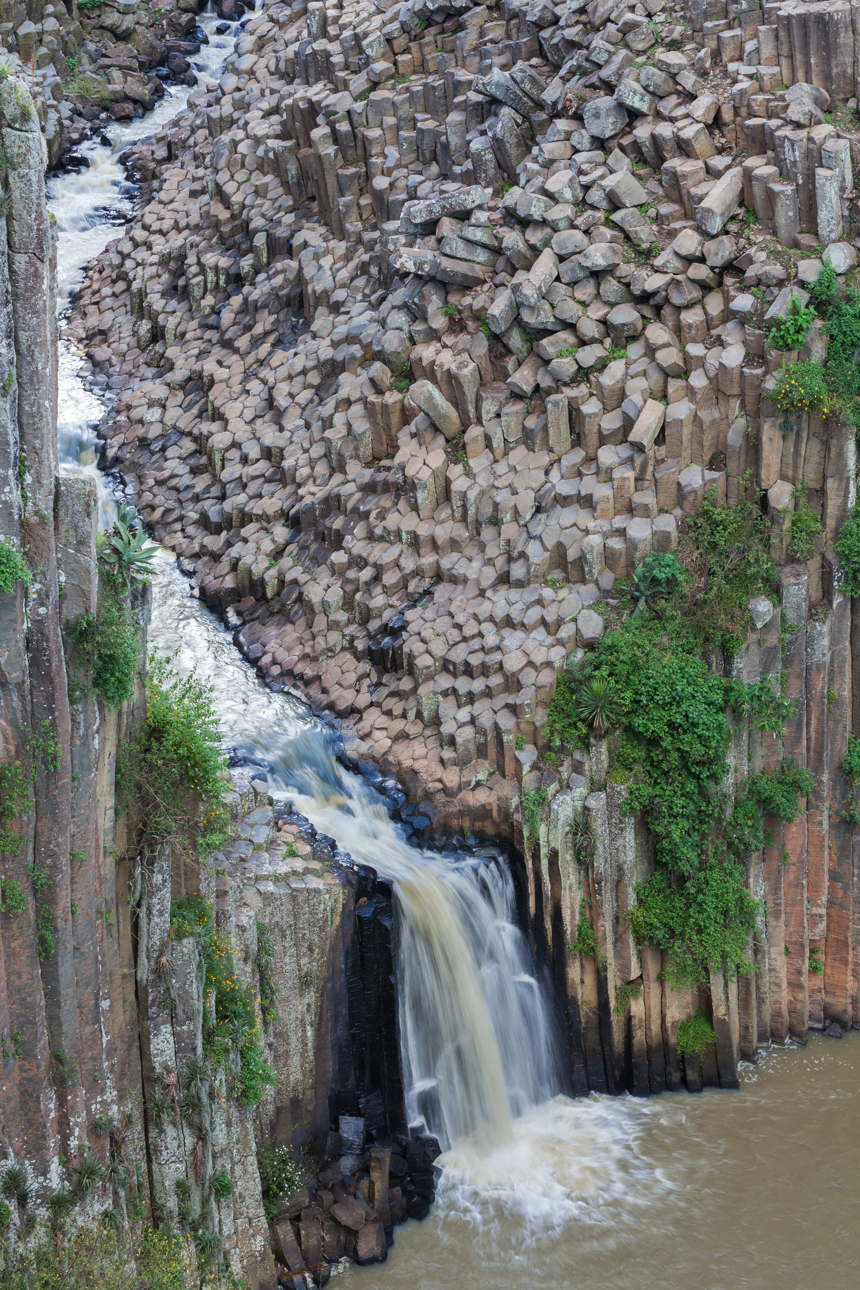 Basaltic Prisms, Huasca de Ocampo, Hidalgo, Mexico